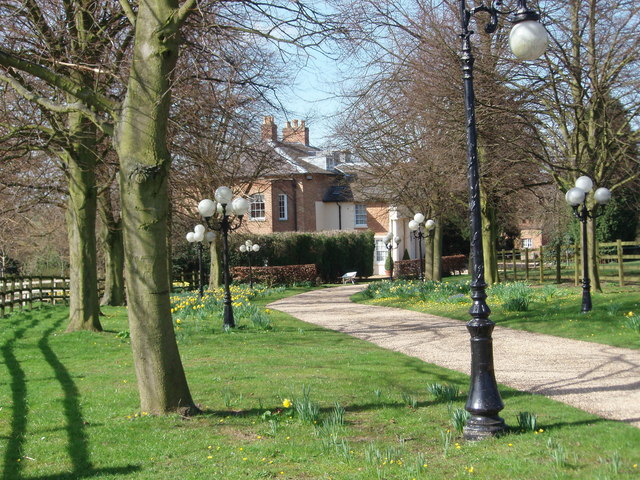 Hulcote, near to Salford, Bedfordshire, Great Britain. A large house in Hulcote